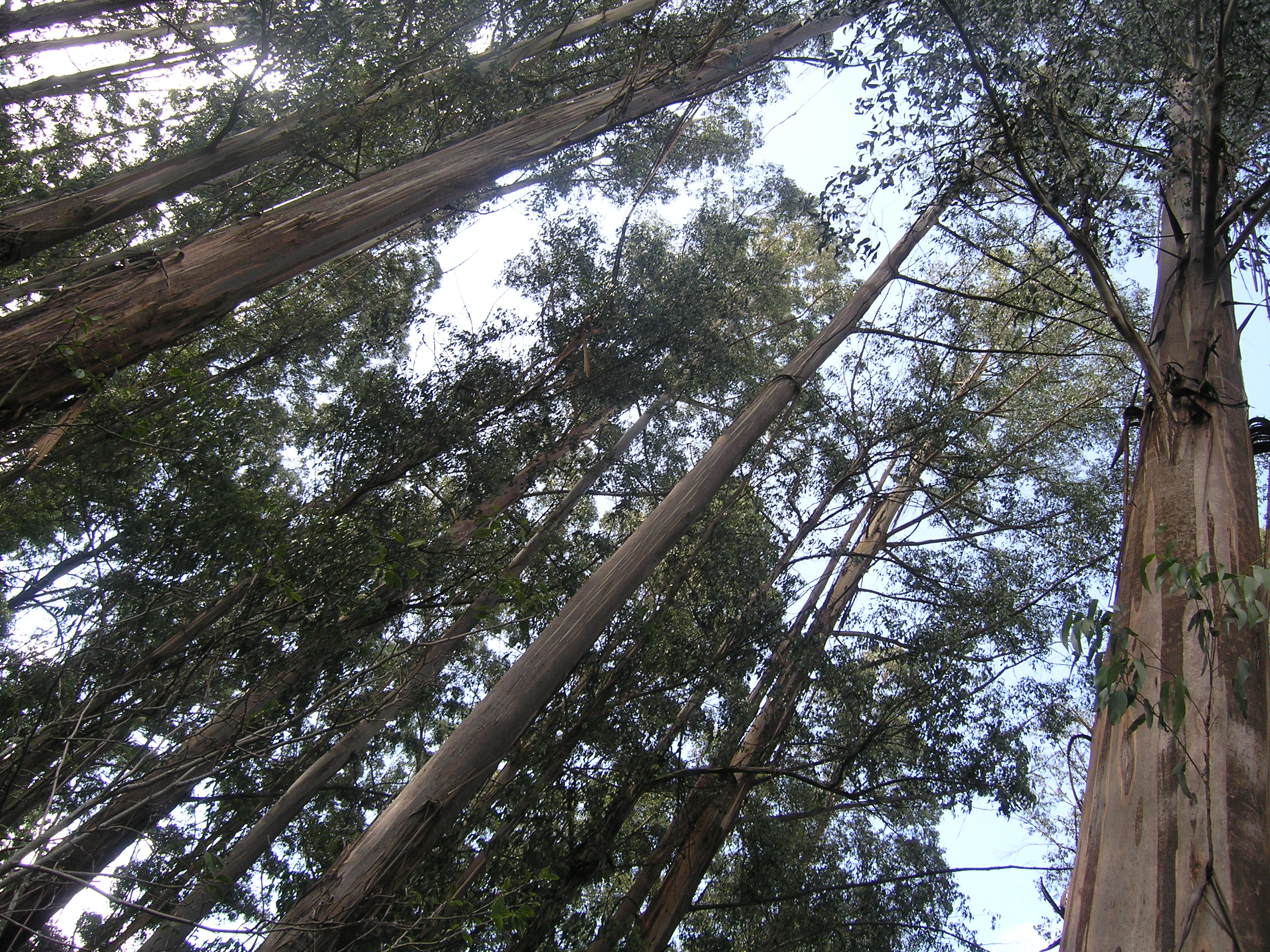 It's a long way to the first branch. Mountain ash (Eucalyptus regnans) on Mount Dandenong, Victoria, Australia, January 2007.